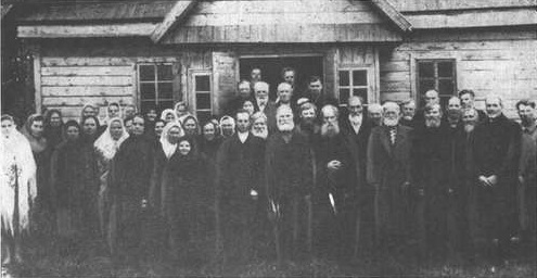 Наставник Михаловской общины П.Г. Поташов среди членов "двадцатки" и членов причта, 9 мая 1965 года